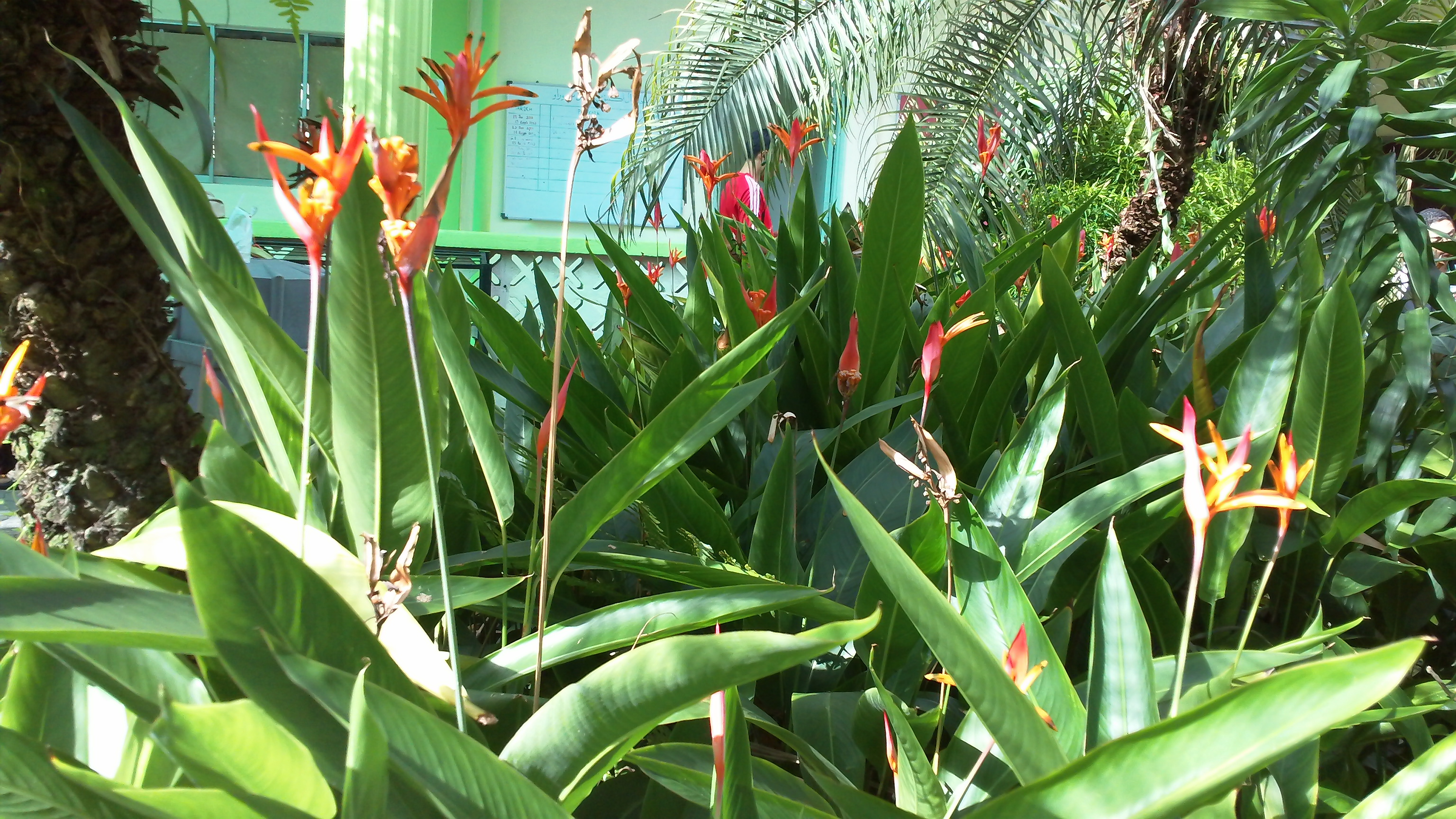 Strelitzia